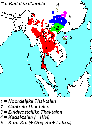 Geographical distribution of the Tai-Kadai phylum. Classification according to David B. Solnit. English version=Image:Taikadai-en.jpg